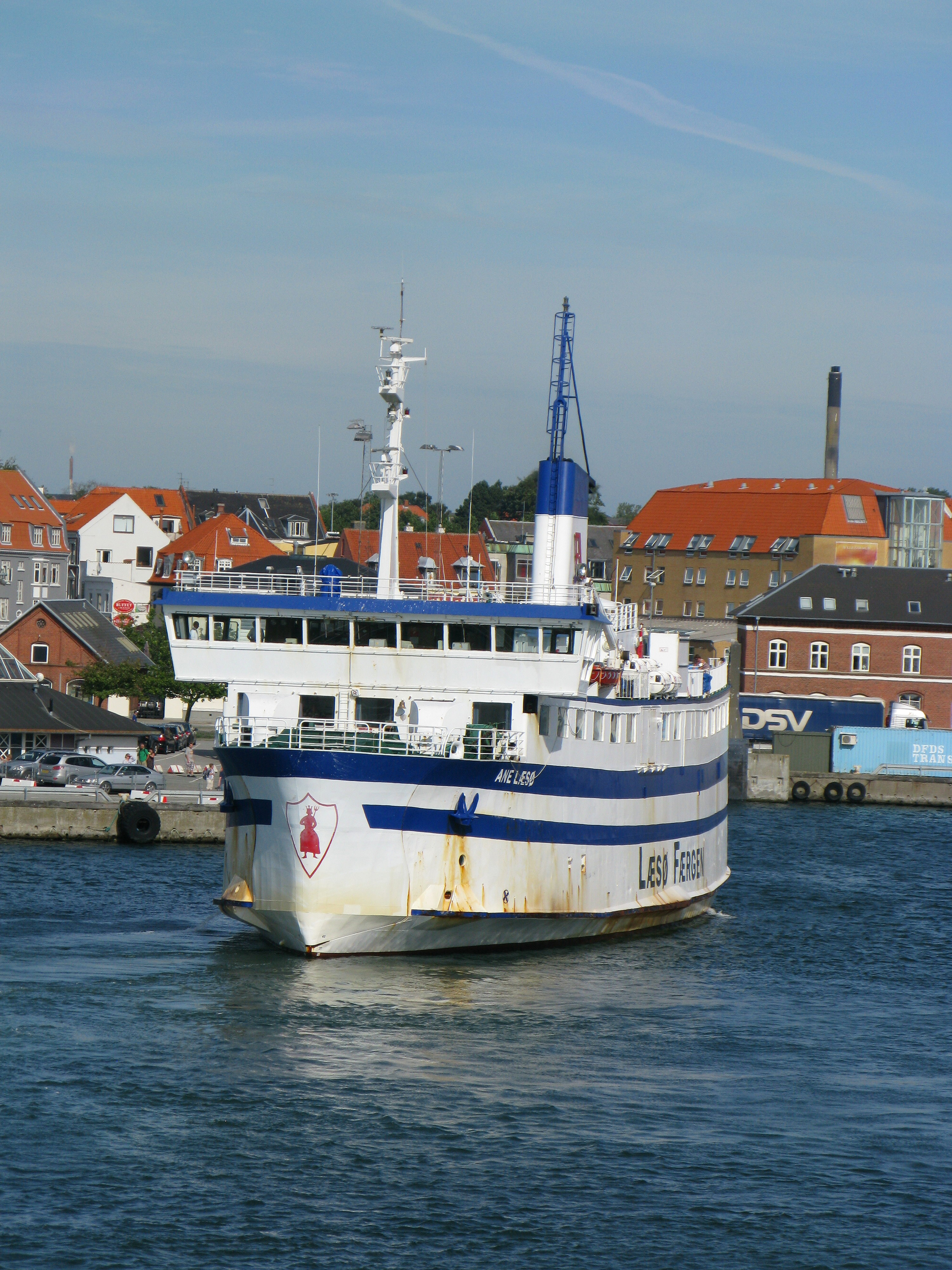 Ferry "Ane Læsø" in the Harbour of Frederikshavn (Northern Denmark)